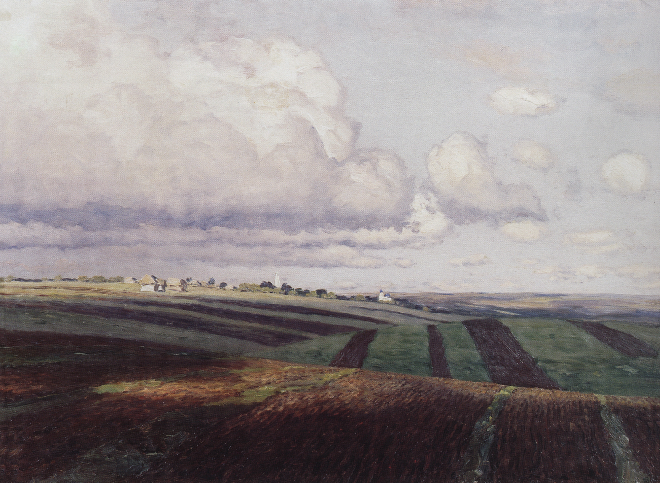 Before a thunderstorm (painting by Nikolay Dubovskoy, a study for his painting The Motherland)